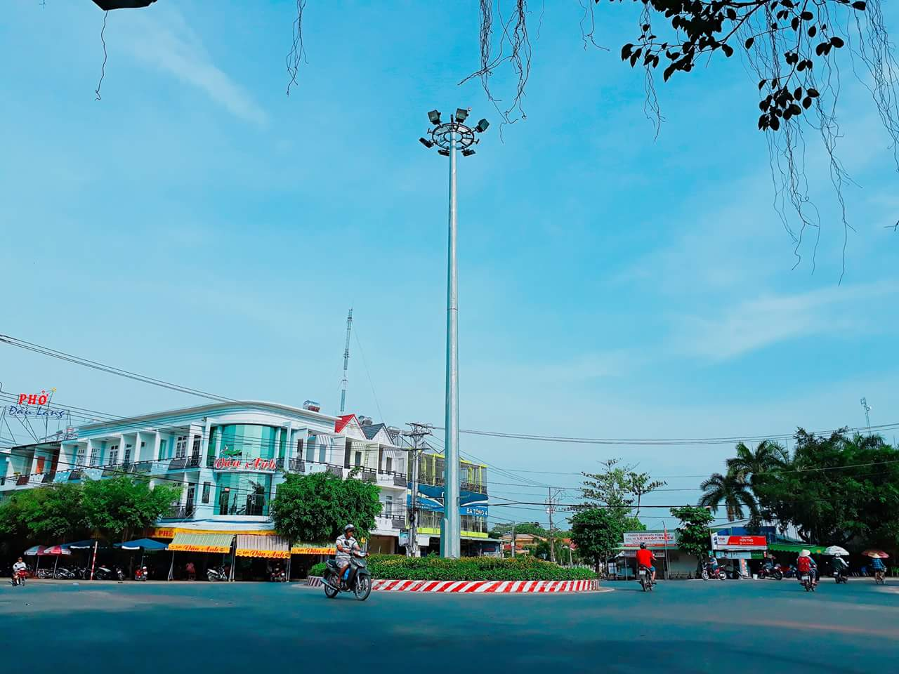 fall of Tan Thanh